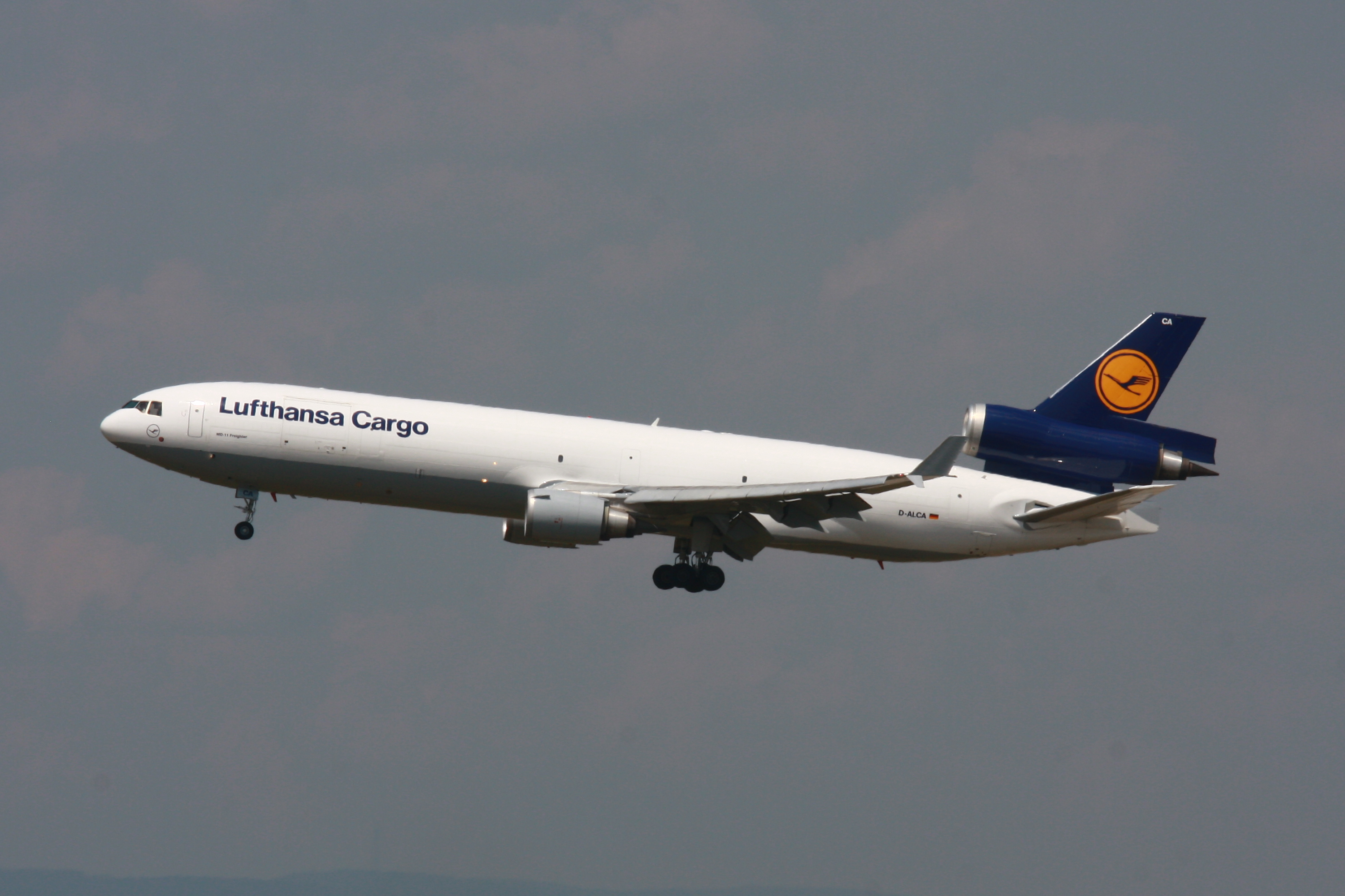 A McDonnell Douglas MD-11F of Lufthansa Cargo landing at Frankfurt Airport